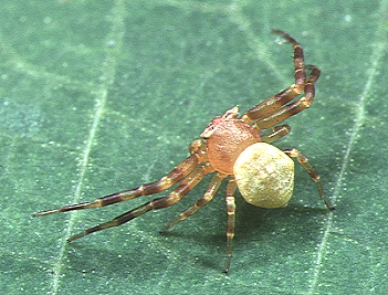 male Thomisus okinawensis from Okinawa.